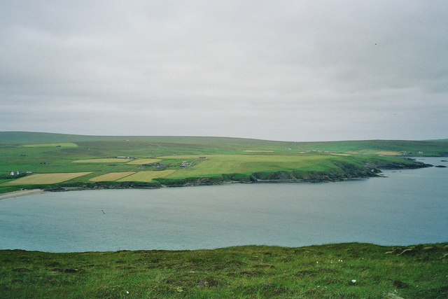 View towards Garths of TrestaFetlar Taken from Lamb Hoga with the Wick of Tresta in foreground